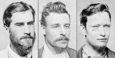 Three of the 23 Kelly Gang sympathisers, arrested and imprisoned in 1879. From left to right: John Quinn, John Stewart, and Joseph Ryan.